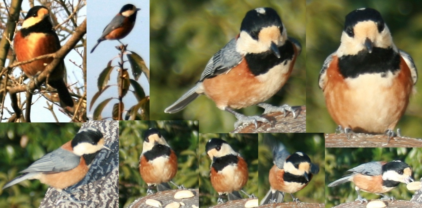 Poecile varius in Mount Kinka (Gifu)